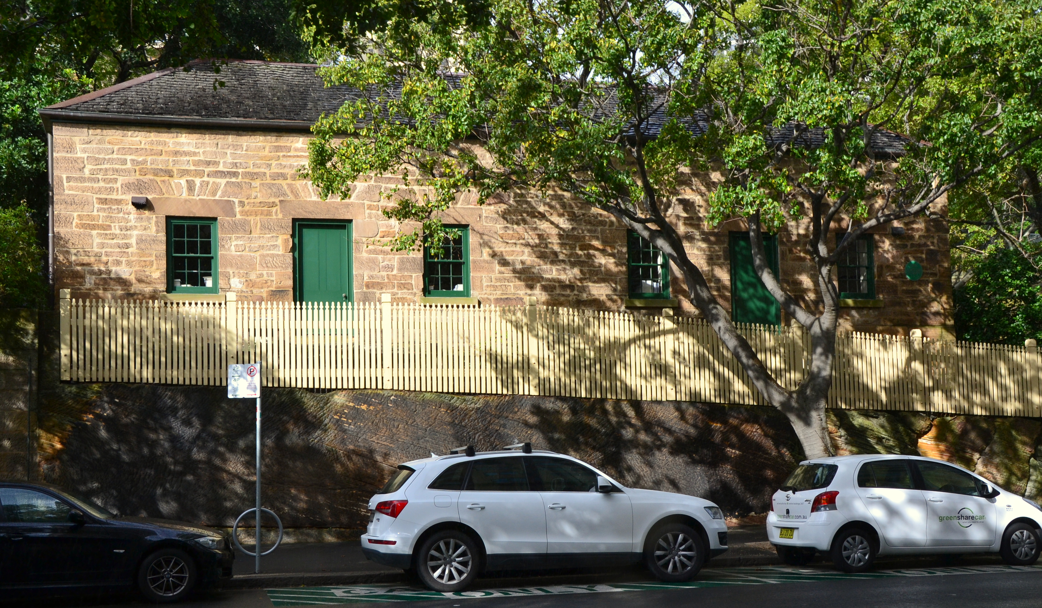 Glover cottages, Sydney